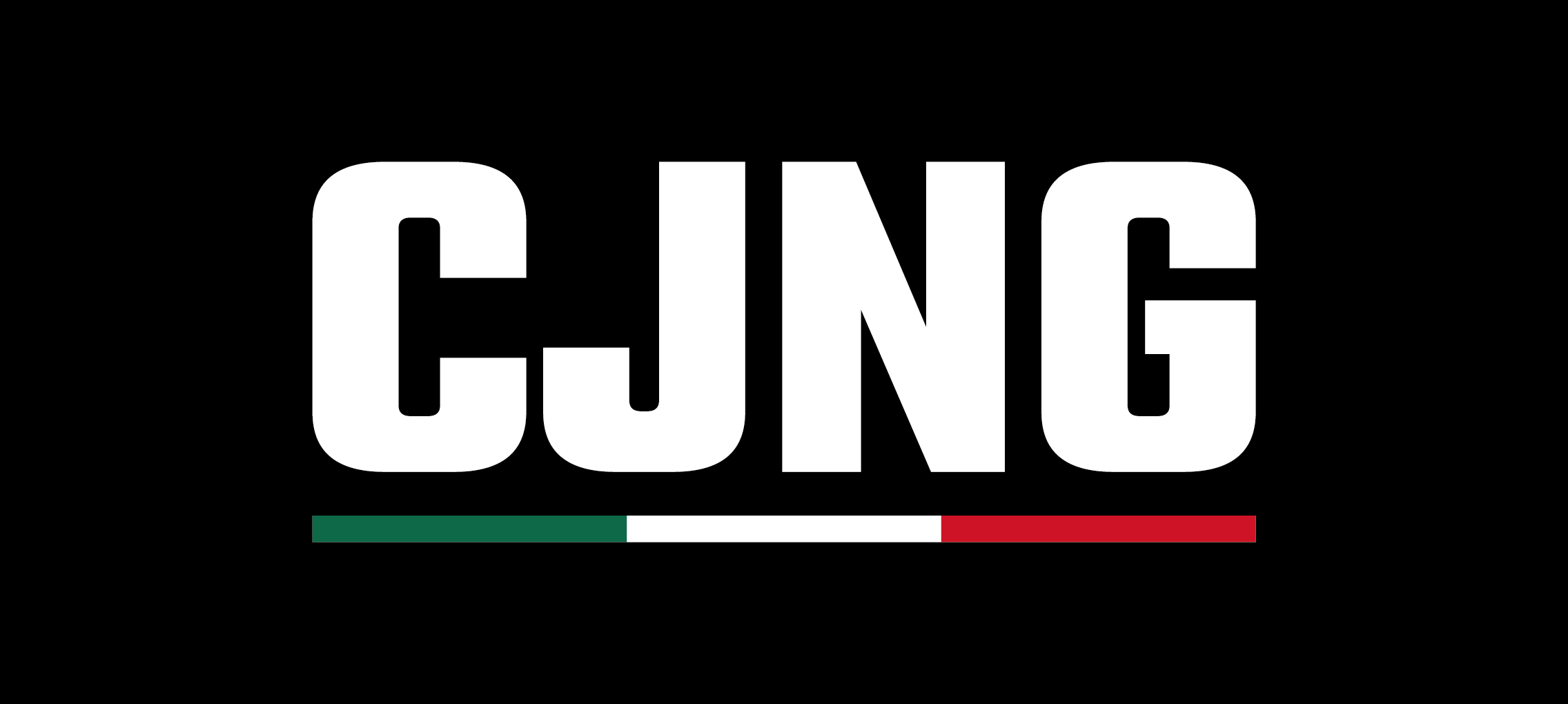 Logotype used by the Jalisco New Generation Cartel. Based on this photo and this one